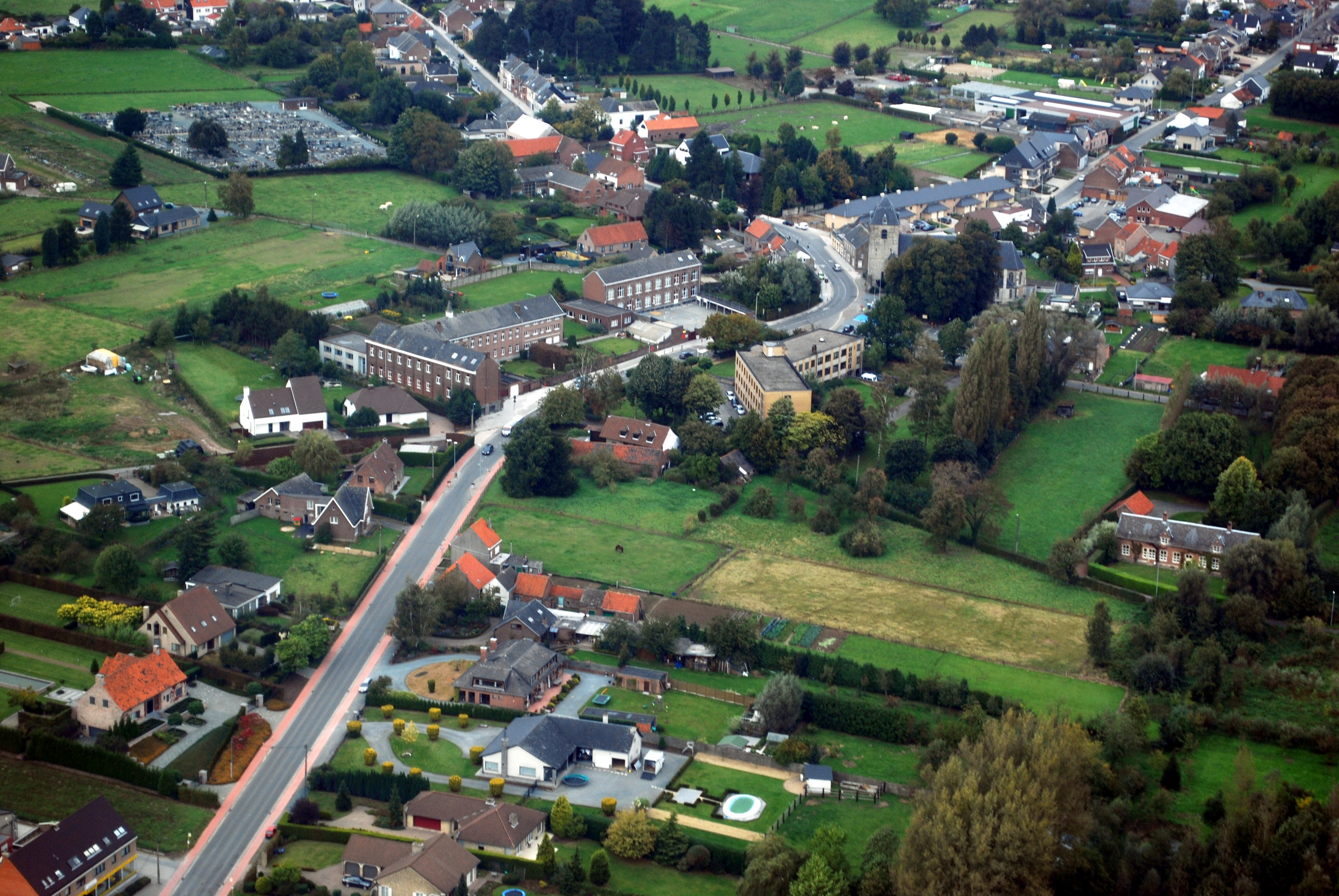 Aerial photograph from the South towards the village centre of Hekelgem (commune of Affligem, Belgium). Nikon D60 f=55mm f/7.1 1/160s, color correction in Adobe Photoshop 4.0